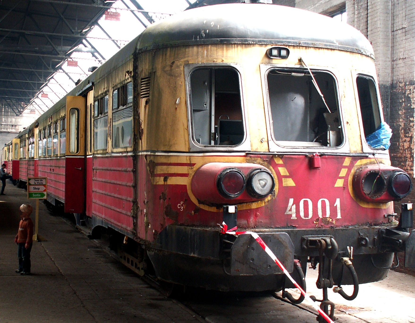 railcar class 40 of the Belgian railways (SNCB), as preserved by the PFT (Patrimoine Ferroviaire et Touristique) heritage railway. This small (7 items were built) 3-bodies railcar class has been built between 1957 and 1961, and retired in 1984, after SNCB decided to restructure his passenger service. Two of the haven't been scrapped, but are in very bad condition, after staying outside for many years. PFT has bought this one with the aim of restoring it, but it's maybe too late...